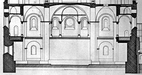 Cross section of the ground floor and galleries of the Westwork of the Basilica of Saint Servatius in Maastricht, the Netherlands.